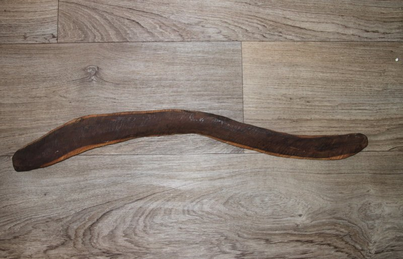 Hunting boomerang from Australia Aboriginal hunters use them.